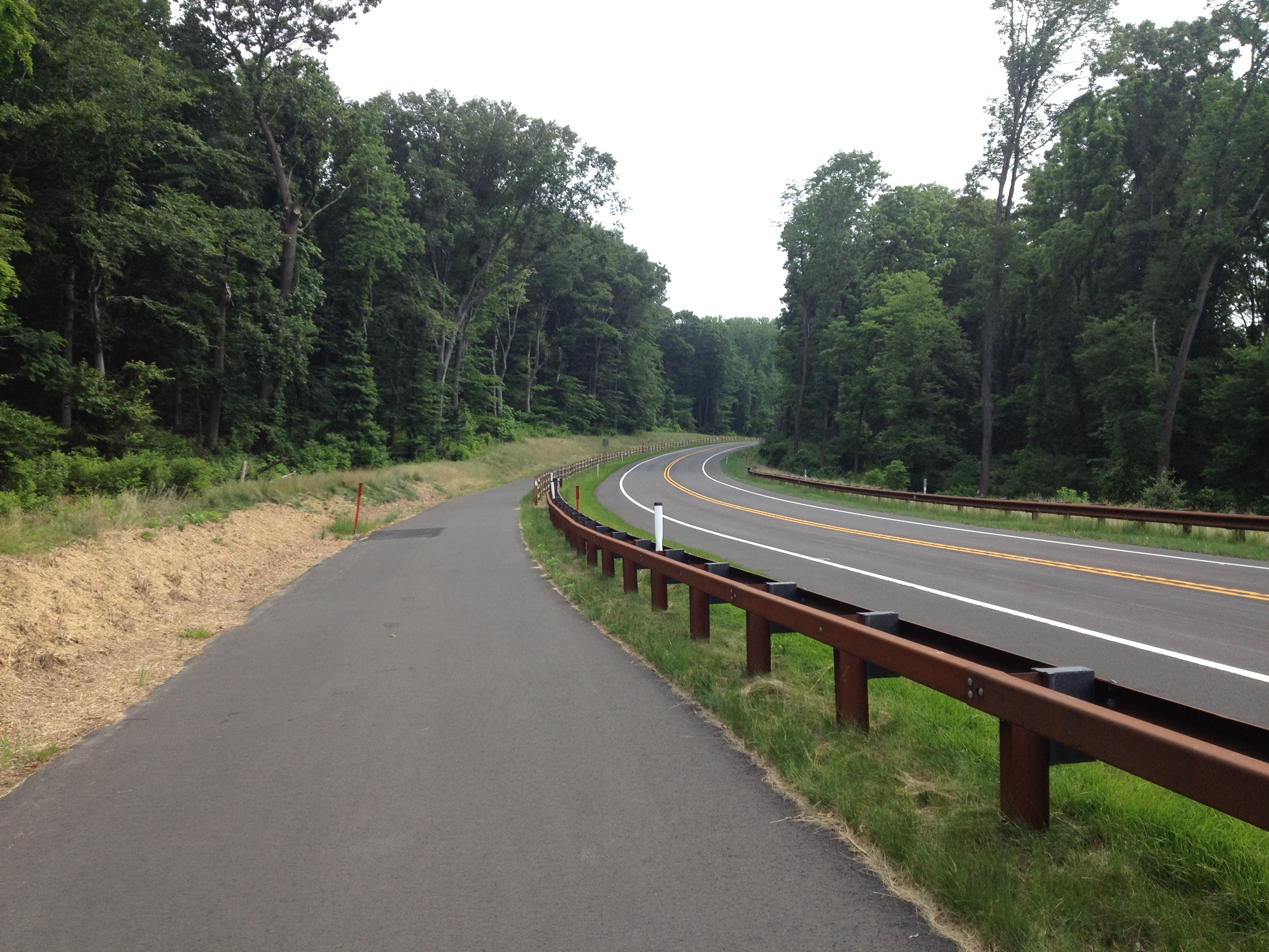 Northbound U.S Route 202 past the bridge over Almshouse Road in Doylestown Township, Pennsylvania